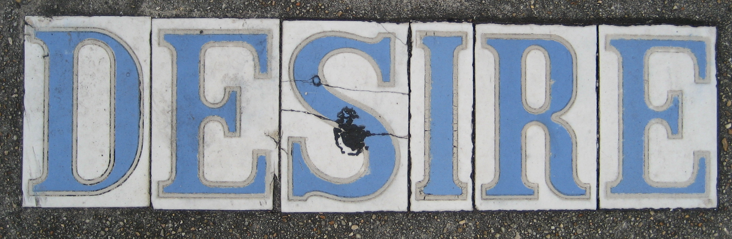 "DESIRE" street name tiles, New Orleans.